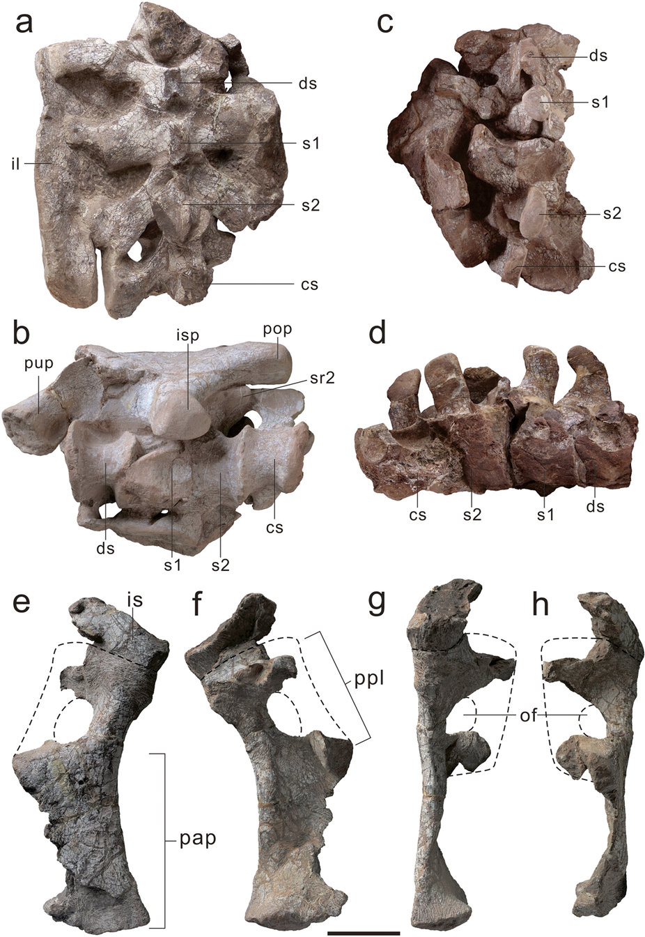 Xingxiulong fossil sacral vertebrae and pubic bone